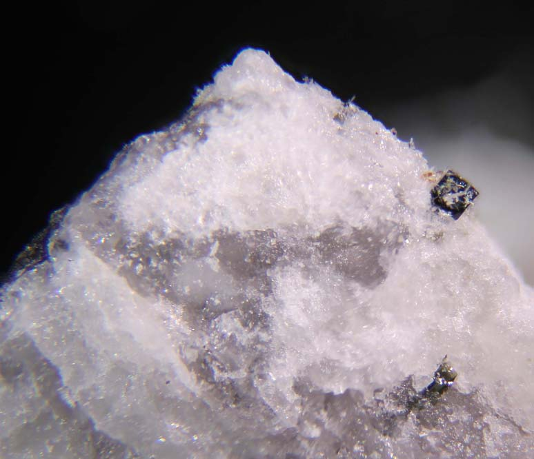 Almost white crystal aggregates of the rare mineral zirsinalite from one of the very few known locaities worldwide (Alluaiv Mountains, Lovozero, Kola, Russian Federation), all of them in Khibiny, Russia